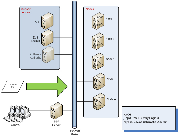 Roxie component layout and network architecture (LN HPCC)